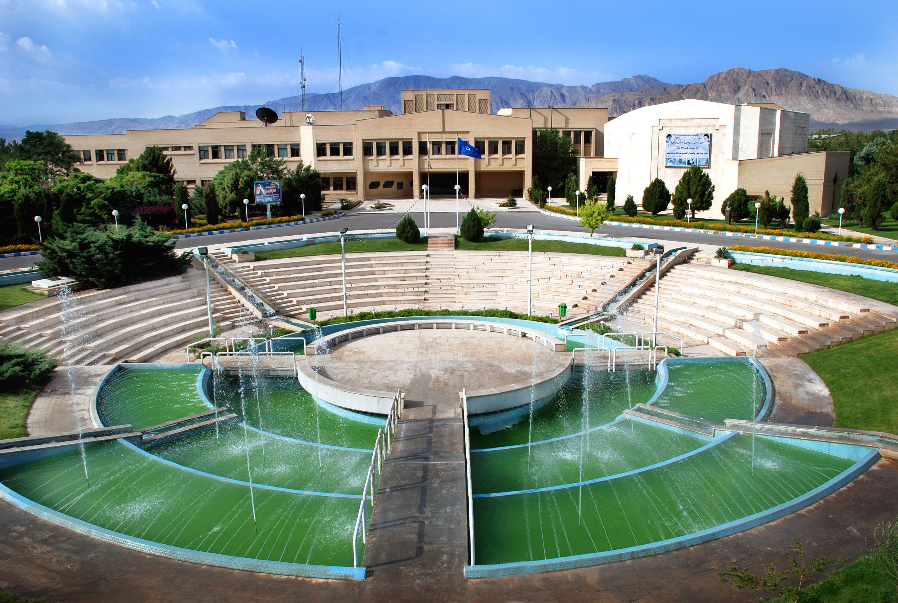 A photo of University of Kashan main door